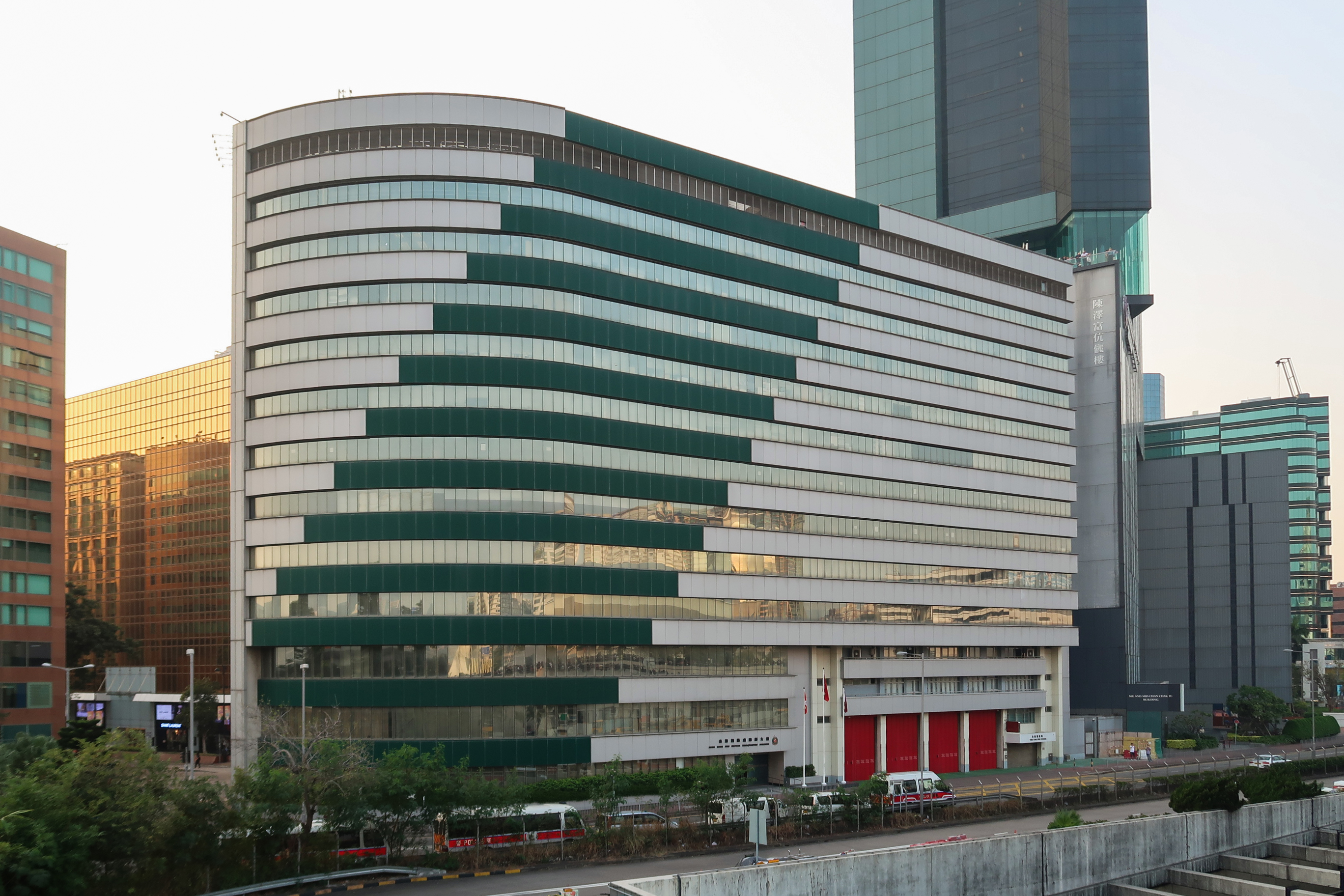 Fire Services Headquarters